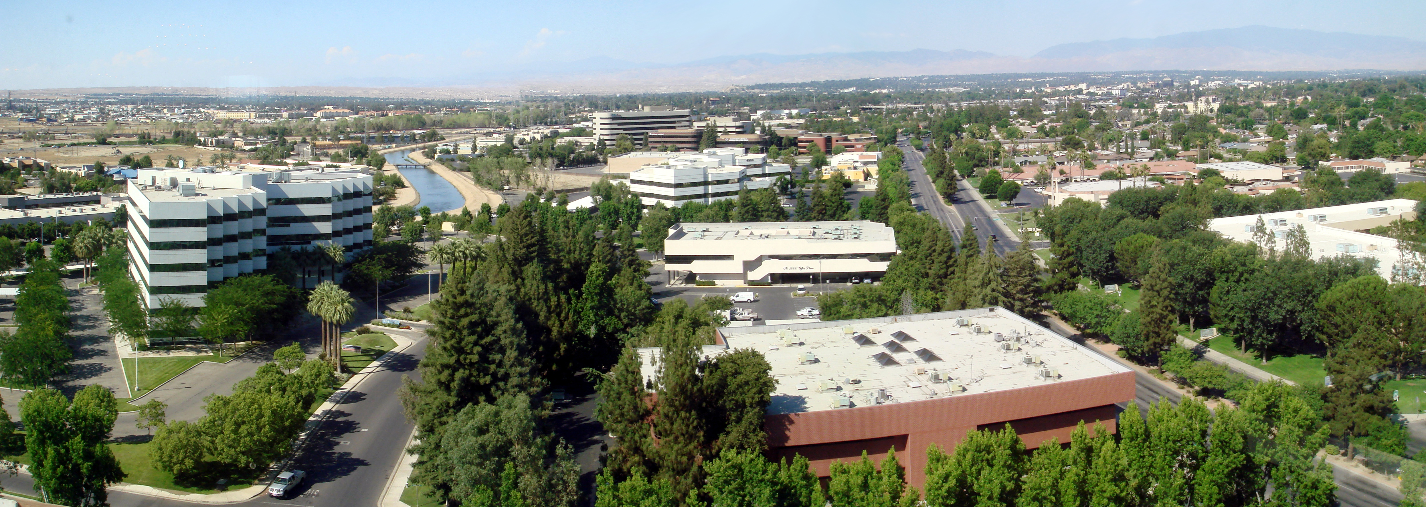 A panoramic view of Bakersfield, California, taken from Stockdale Tower, the tallest building in the city, facing east/northeast. The office buildings in the foreground make up a mini financial district and regional offices for many oil companies that operate in the region; the major street to their right is California Avenue. Towards the upper right is downtown Bakersfield, marked by the black-with-white-roof Truxton Tower (the 2nd tallest building in the city). The area rising in the background-right is East Bakersfield. The mountain range is the background are the Greenhorn Mountains.